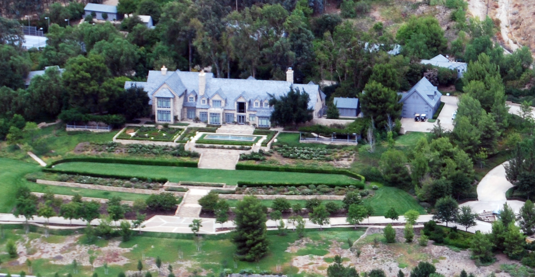 "Bonnie View" mansion at Gold Base, Gilman Hot Springs, California